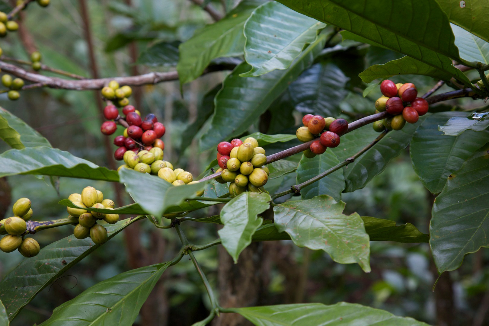 Coffee berry, Bali